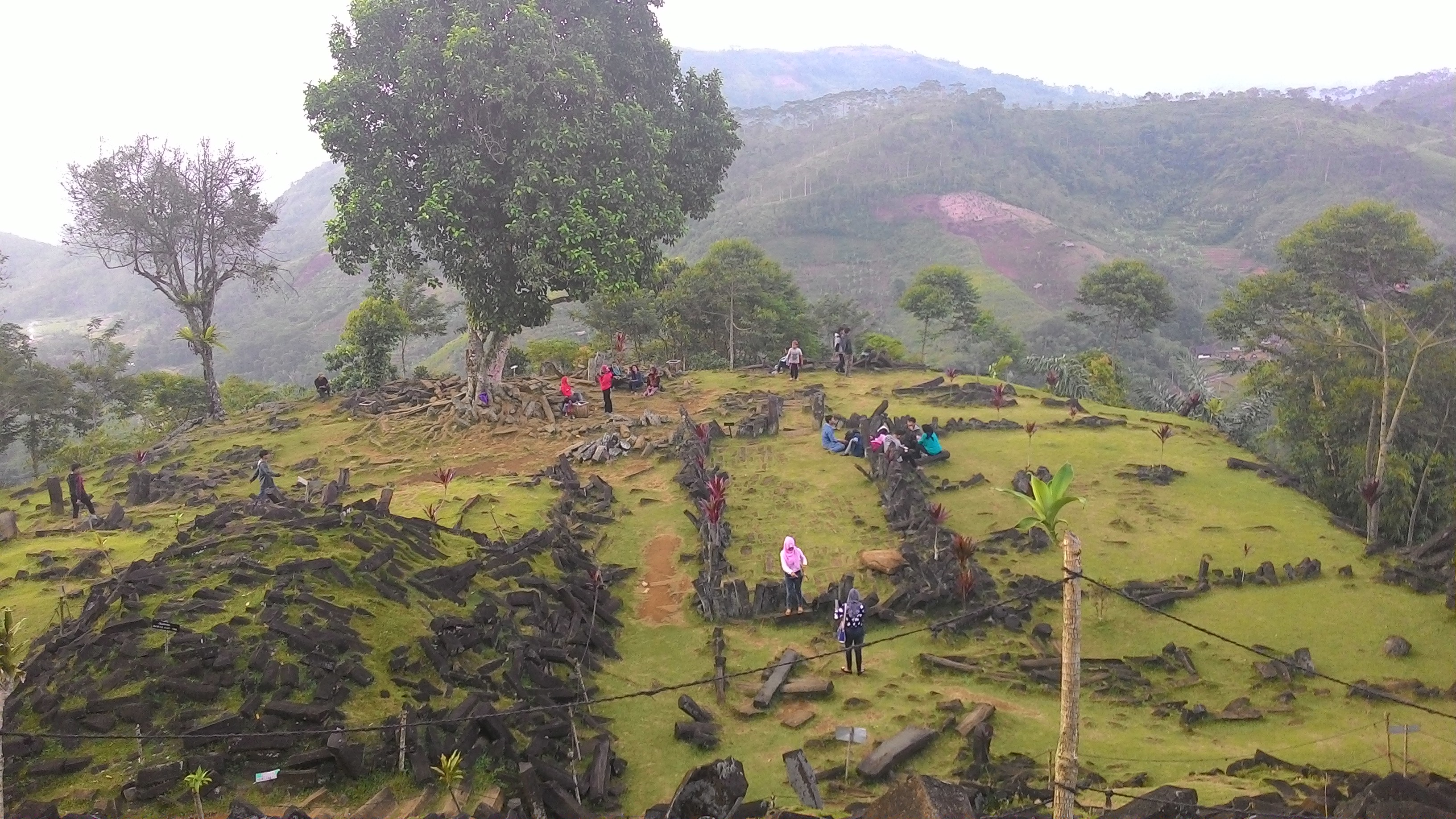 Fifth terrace of Gunung Padang Megalithic Site